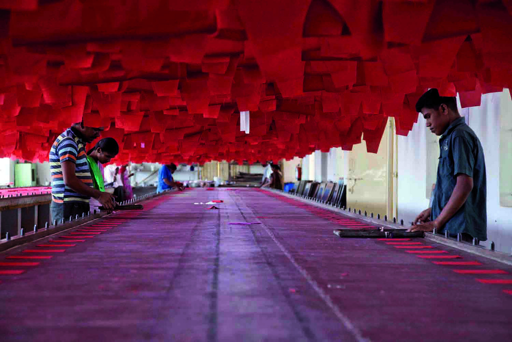 Factory in Tiripur South India of Assisi Garments, an NGO founded and run by Franciscan nuns, which employs a group of women at risk of social exclusion in the region.